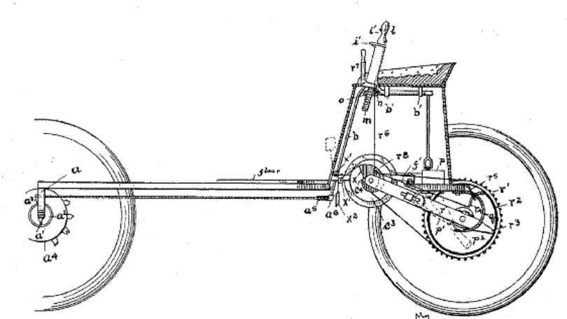 Excerpt from diagram of 653,224 for Duryea motor vehicle